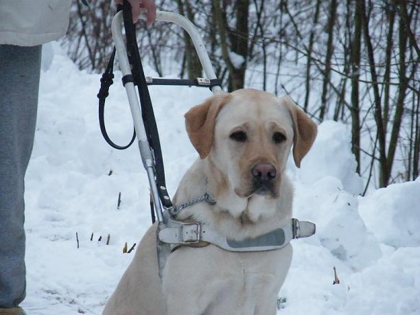 Guide dog from Veiviseren Norway, førerhund fra Hundeskolen Veiviseren